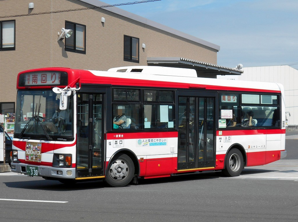 Miyako bus Isuzu Erga Mio (KK-LR233J1)Shiogama city roop bus "Shionavi 100yen bus"